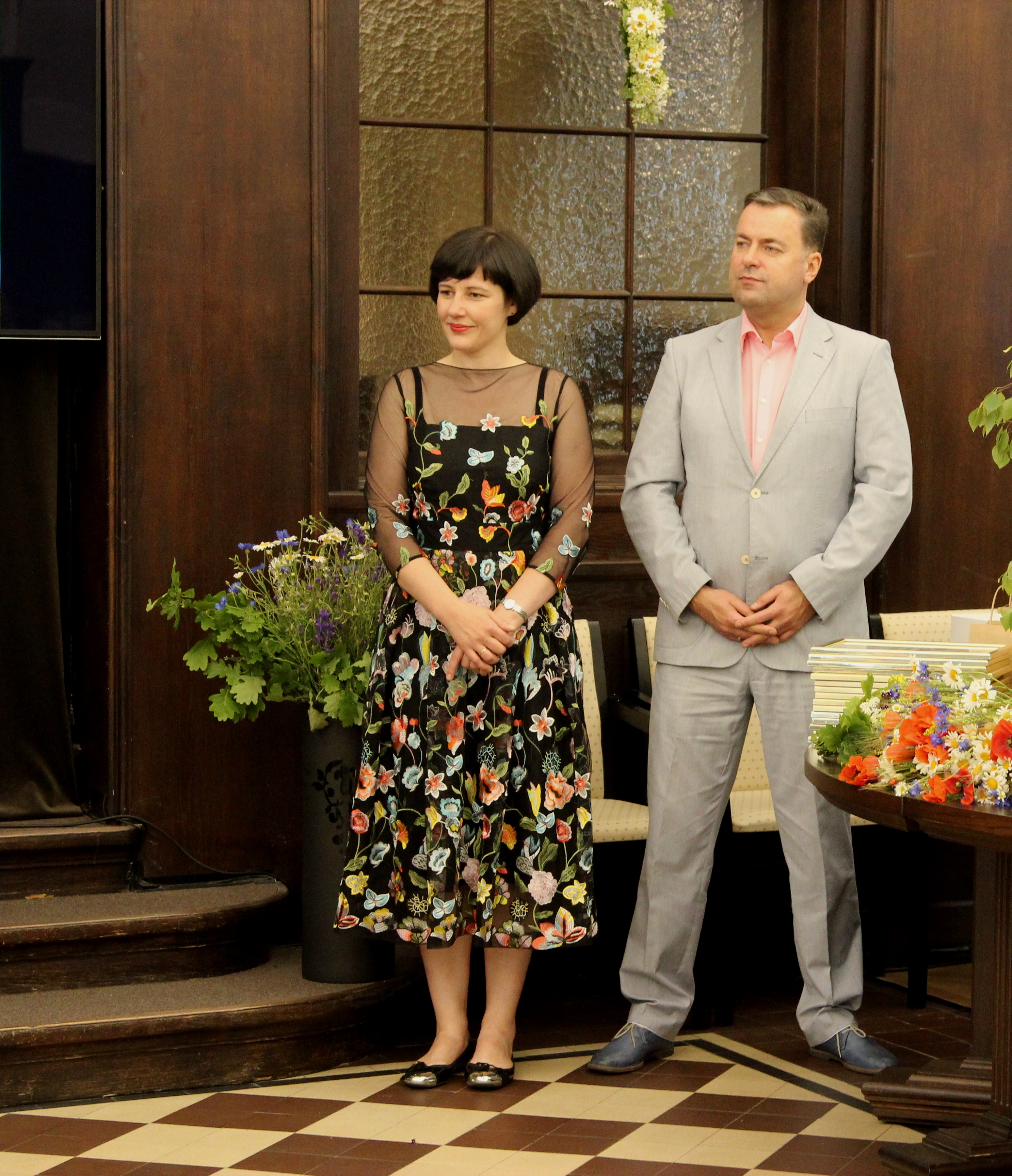 Ringolds Beinarovičs and Dana Reizniece Ozola, 2016